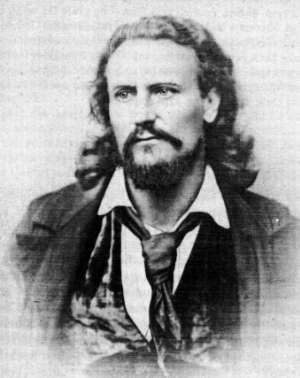 Picture of Albert Friedrich Benno Dulk